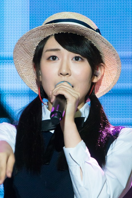 Oh Yeon-kyung at Show Music Core Chuseok Special, 14 September 2013